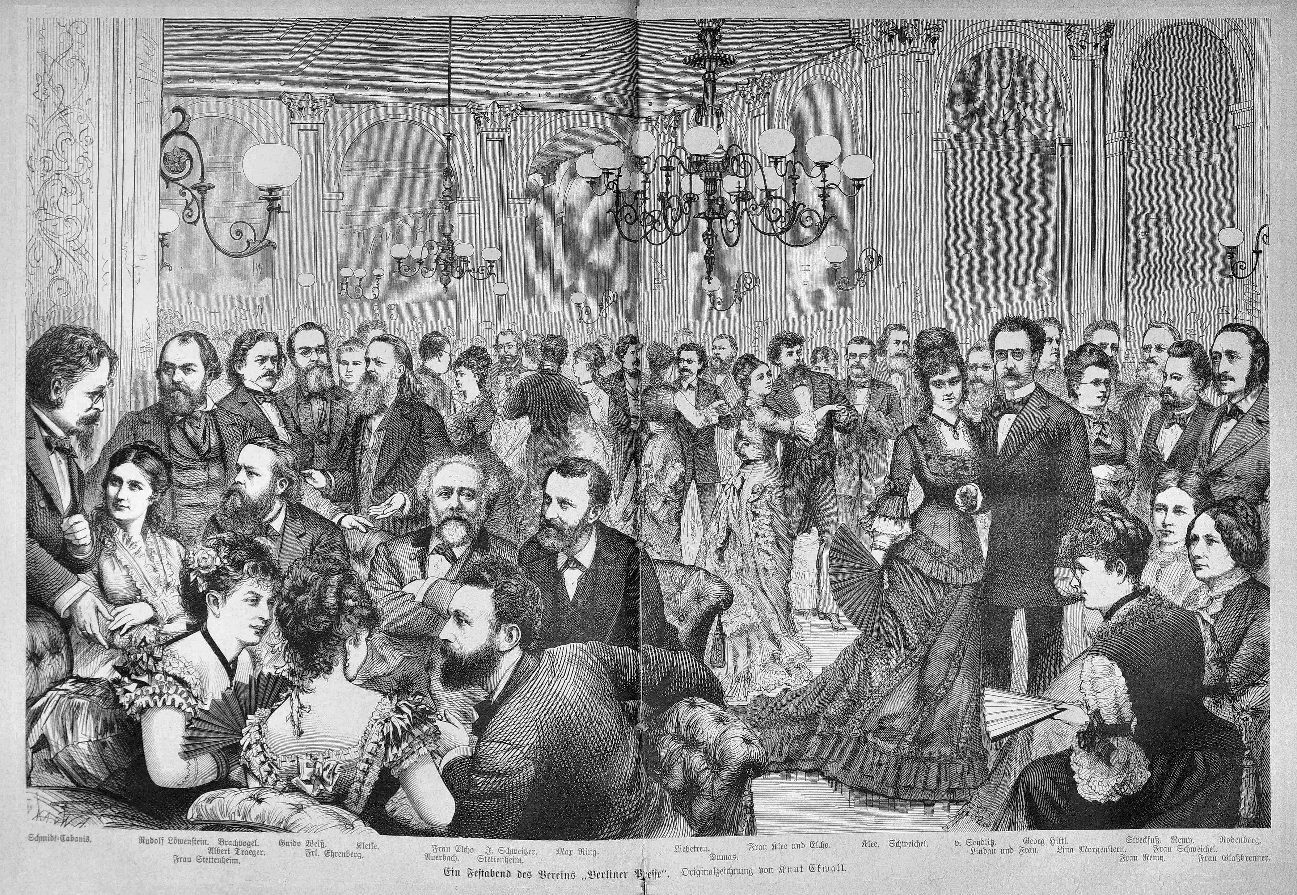 caption: "Schmidt-Cabanis. Rudolf Löwenstein. Brachvogel. Guido Weiß. Kletke. Frau Elcho. J. Schweitzer. Max Ring. Liebetreu. Frau Klee und Elcho. Klee. Schweichel. v. Seydlitz. Georg Hitl. Streckfuß. Remy. Rodenberg. Albert Traeger. Frl. Ehrenberg. Auerbach. Settenheim. Dumas Lindau und Frau. Lina Morgenstern. Frau Schweichel. Frau Stettenheim. Frau Remy. Frau Glasbrenner.Ein Festabend des Vereins „Berliner Presse“. Originalzeichnung von Knut Ekwall."